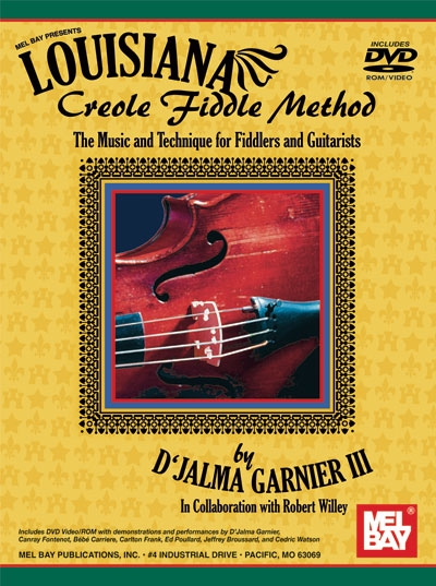 Book cover of Mel Bay book by D'Jalma Garnier: Creole Fiddle Method, special transcriptions of Louisiana Creole French folk songs heretofore never transcribed into sheet music